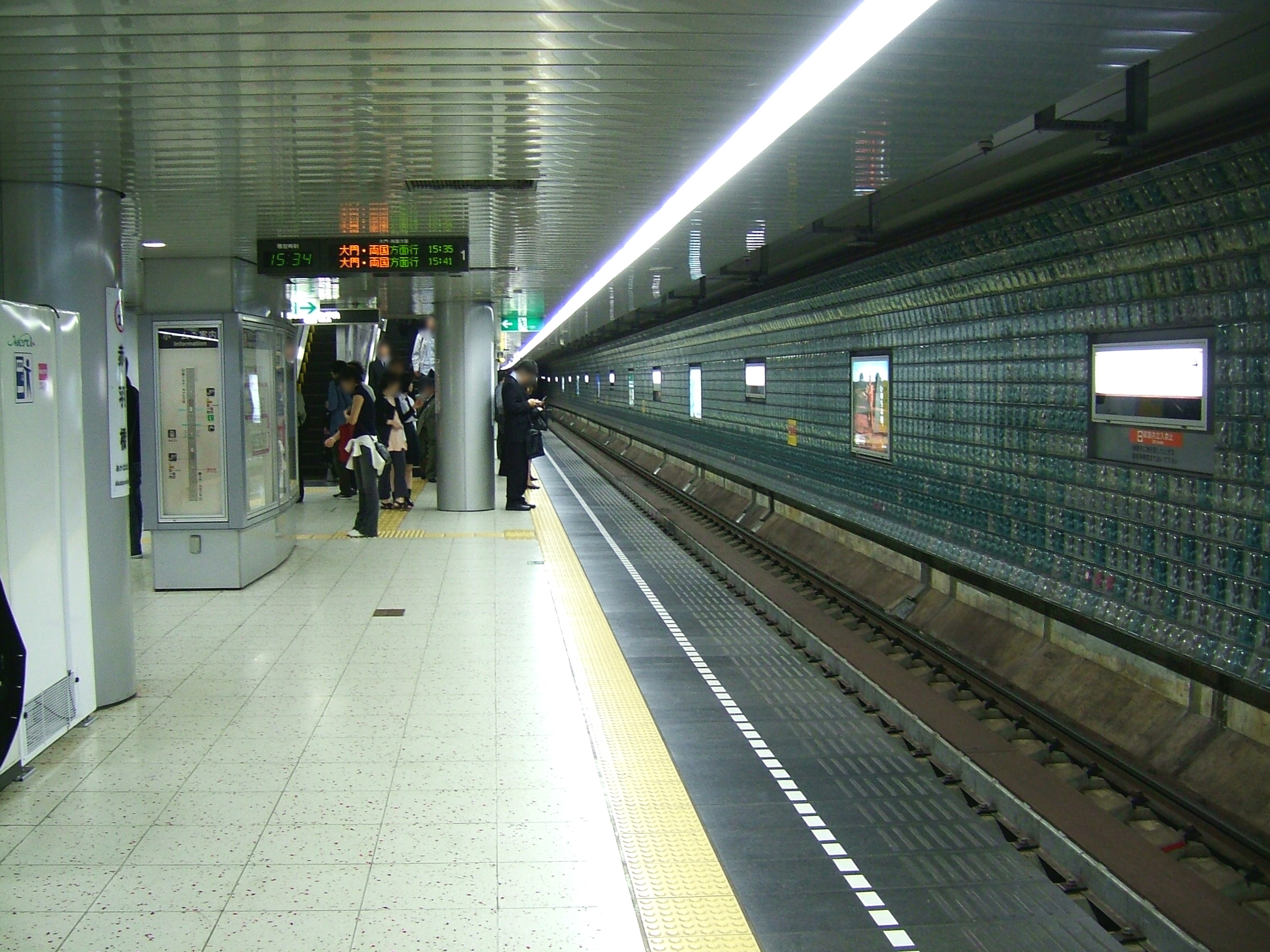 The platform at Akabanebashi Station on the Toei Ōedo Line in Minato city, Tokyo, Japan